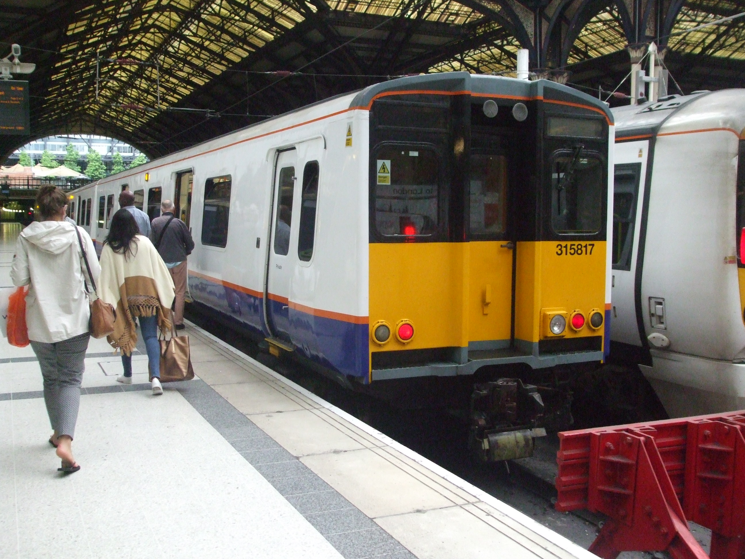 Class 315 unit 315817 in London Overground colours at Liverpool Street station in June 2015